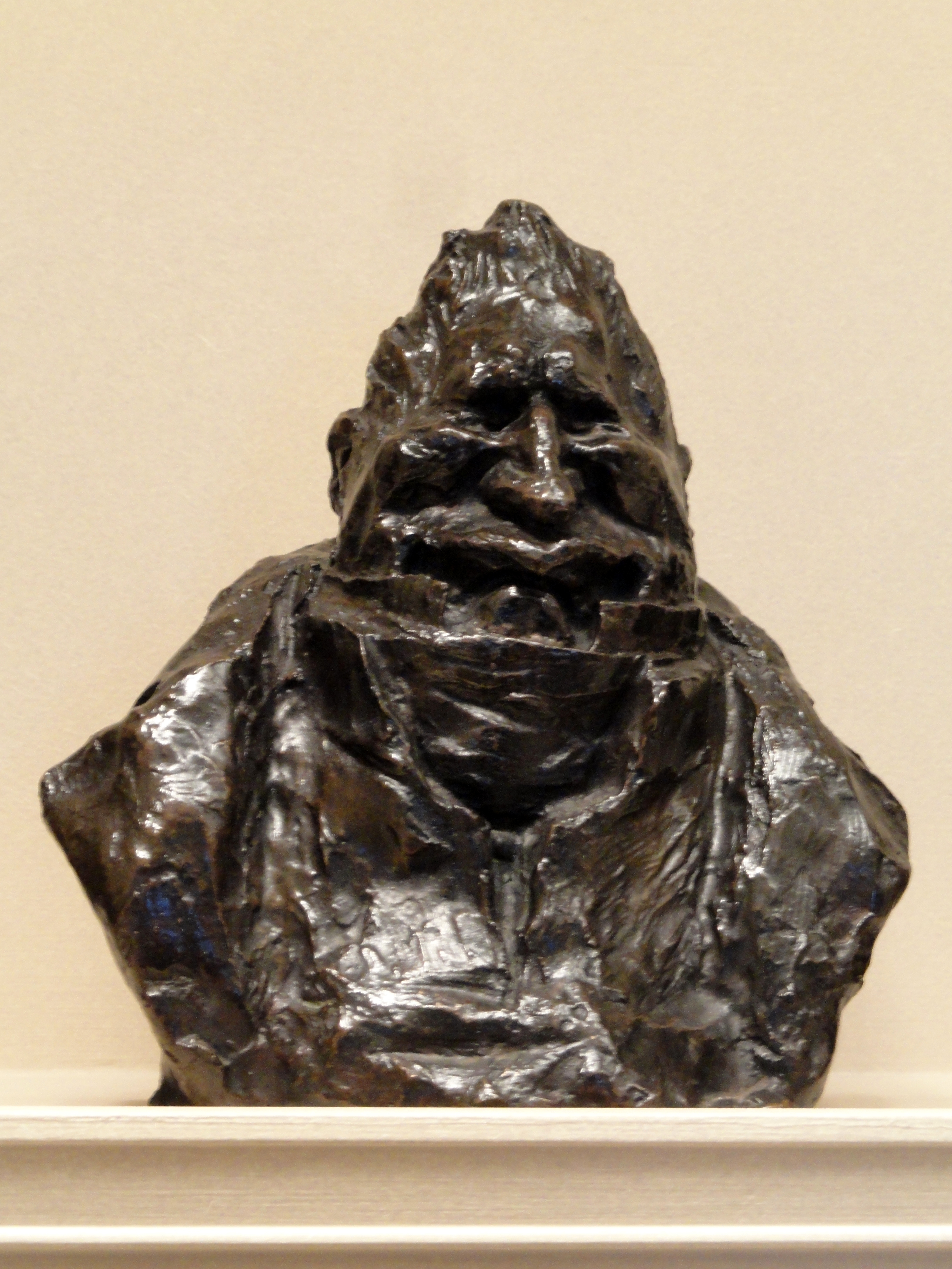 Joseph, baron de Podenas, by Honoré Daumier - National Gallery of Art, Washington, DC, USA. This artwork is in the public domain because the sculptor died more than 70 years ago.